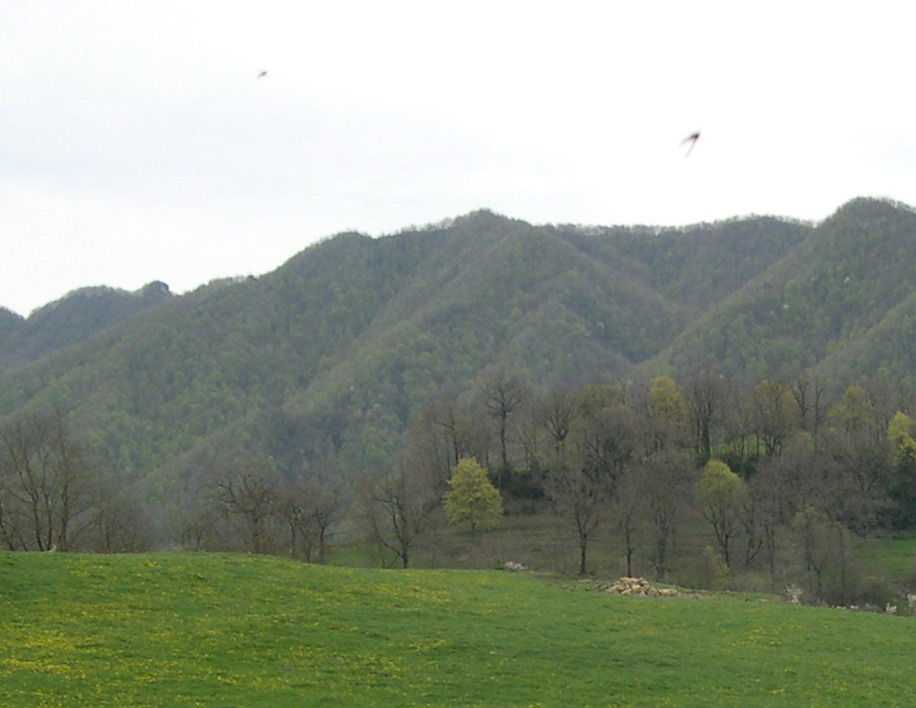 Puig de l'Àliga as seen from Vidrà (Osona, Catalonia).